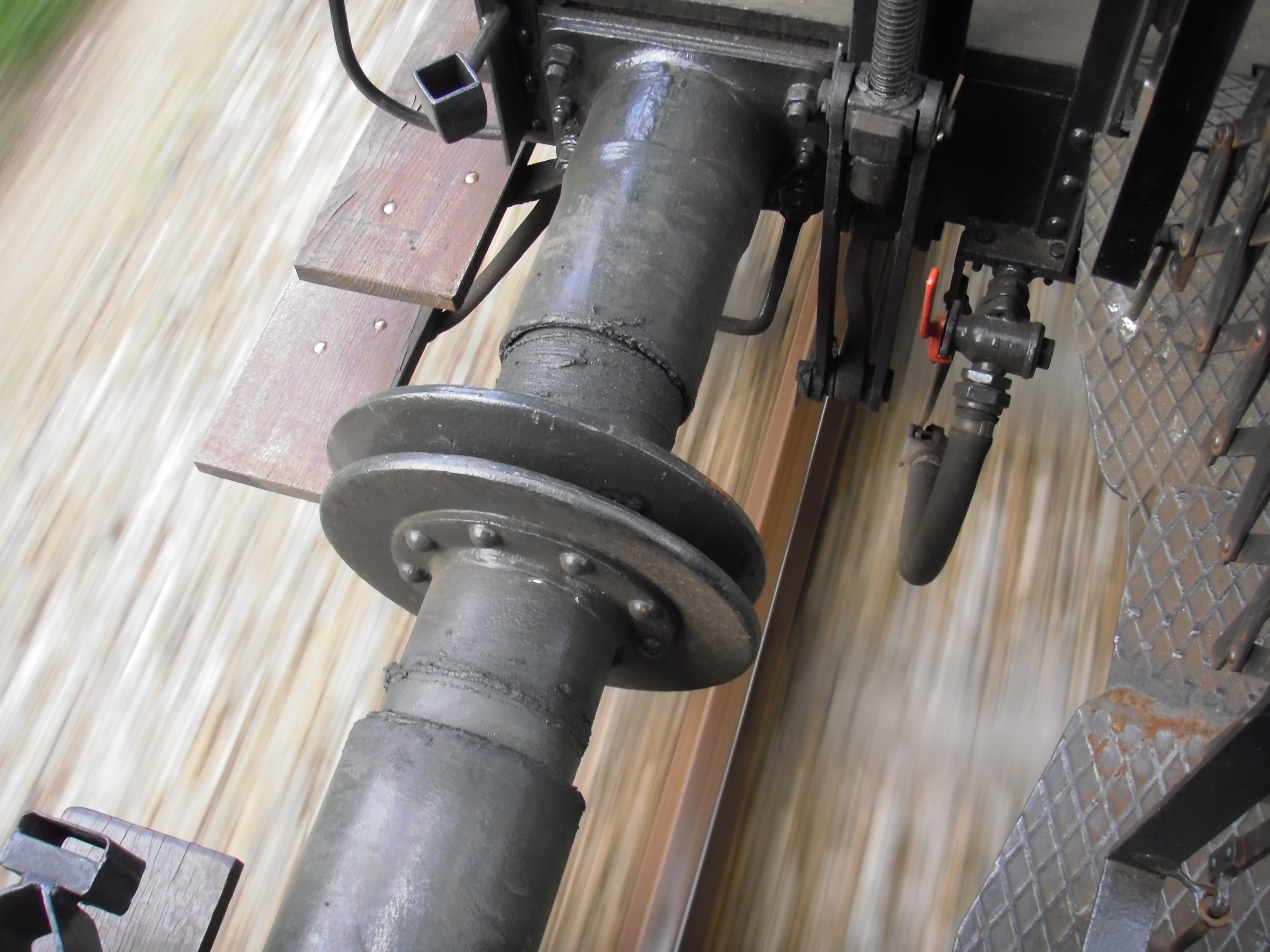 Railway coupler from a steam traction train from the Veluwse Stoomtrein Maatschappij, Netherlands. Picture made in the summer of 2010.